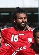 Djelaludin Sharityar, former captain of Afghanistan before match with Japan, 2018 FIFA World Cup qualification, Azadi Stadium, Tehran